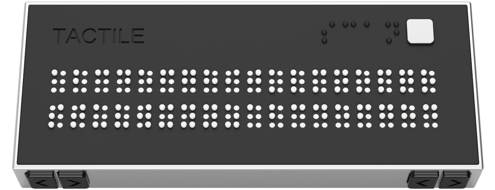 A CAD rendering of the concept design for Tactile Technologies' namesake device